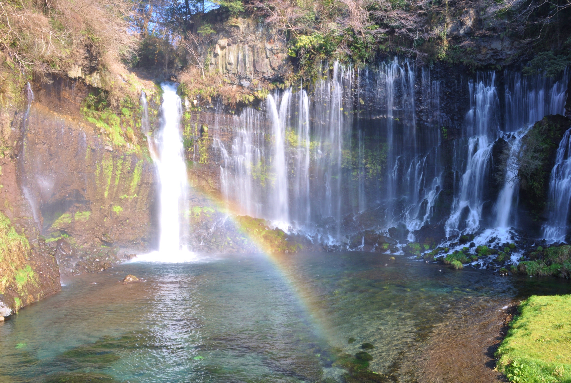 Shiraito waterfalls with rainbow near Mount Fuji